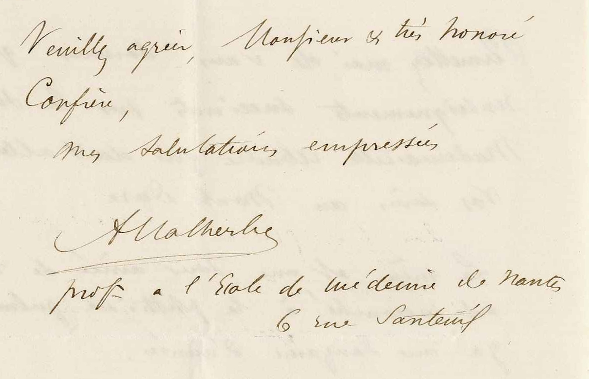 End of a Letter from Albert Malherbe, 24. July 1879